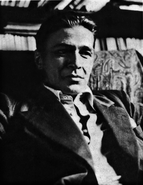 Gayto Gazdanov